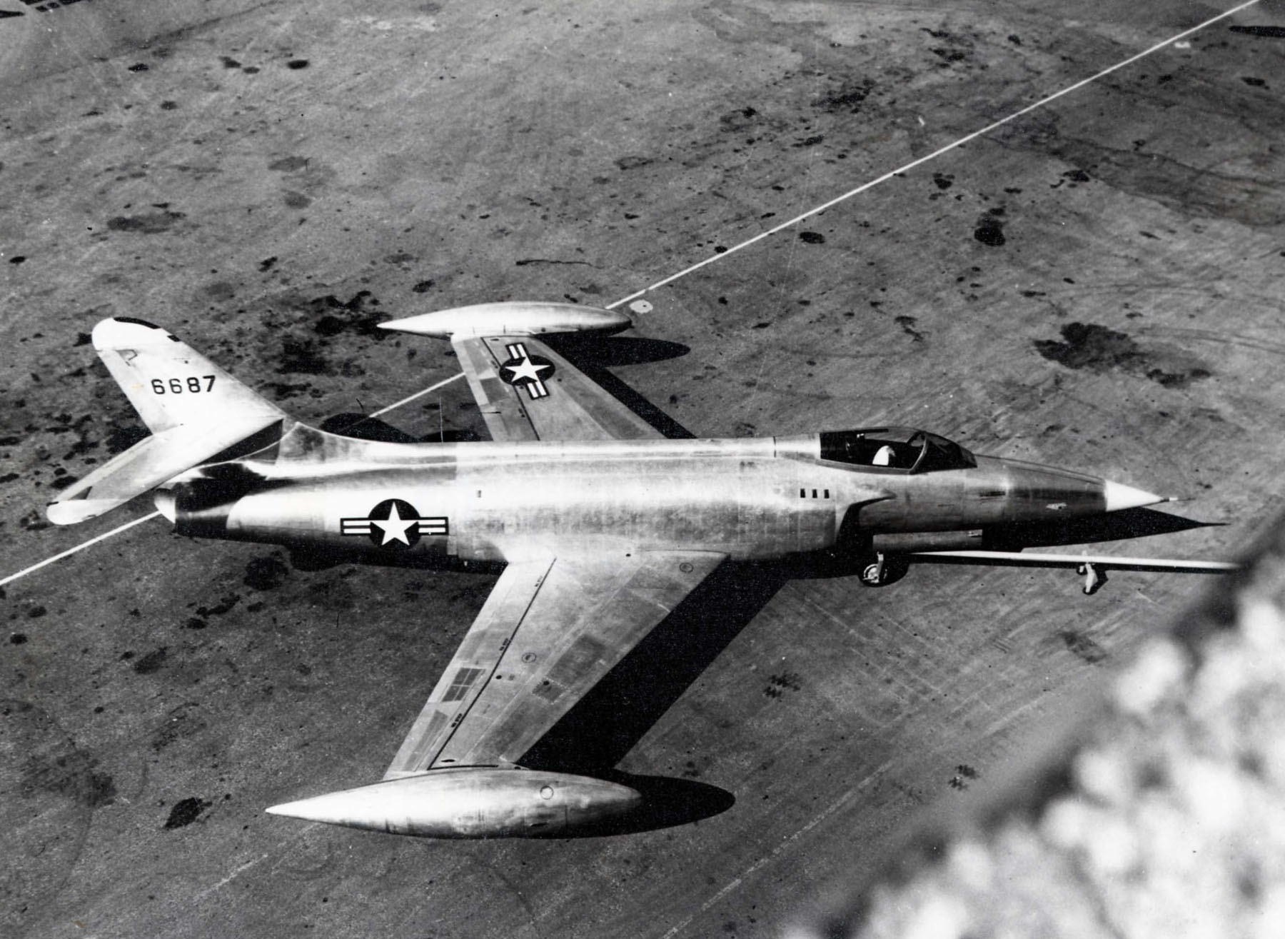 Lockheed XF-90 parked.